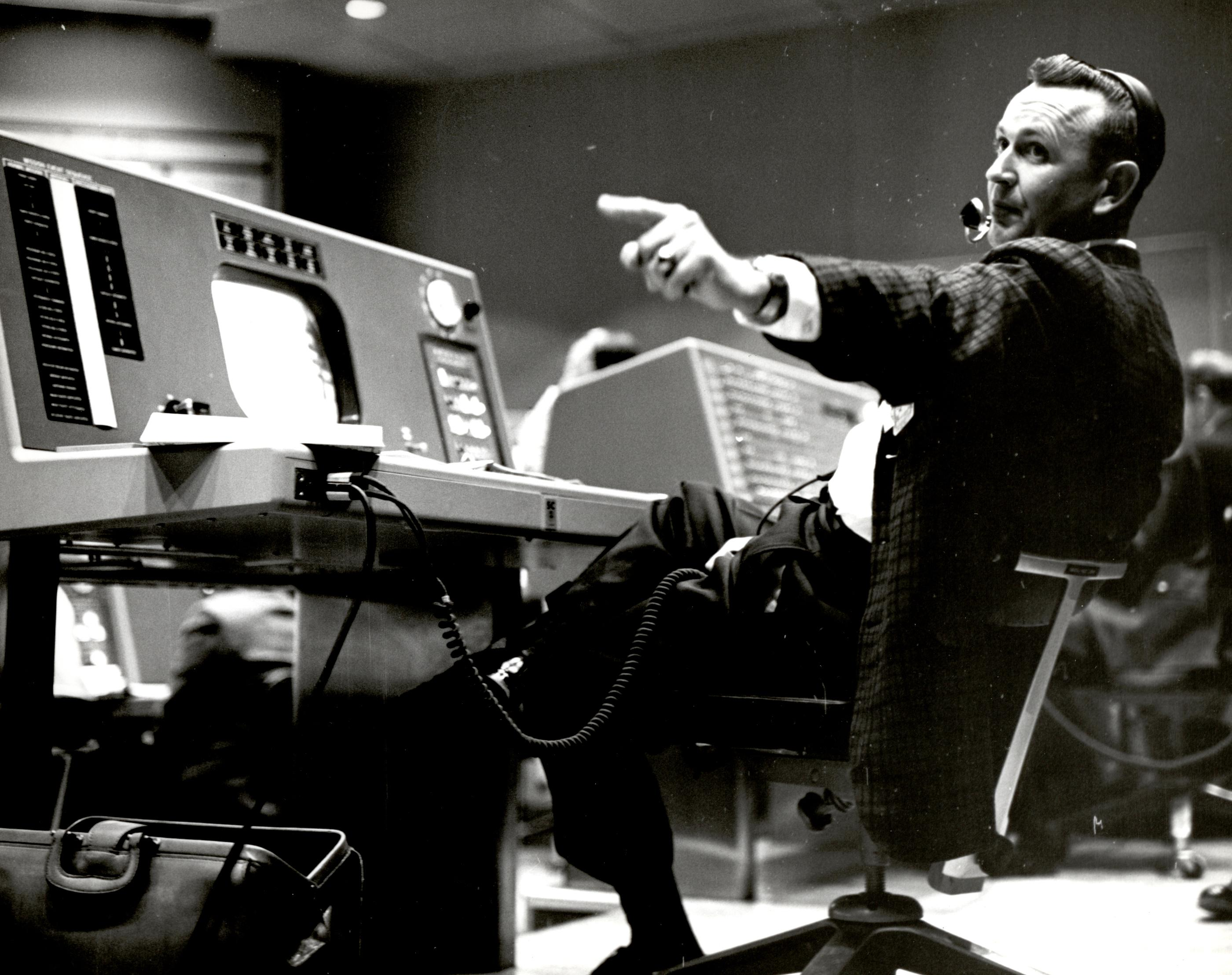 Christopher Kraft, flight director during Project Mercury, works at his console inside the Flight Control area at Mercury Mission Control. NASA Image tag 423257main_Shannahs_66